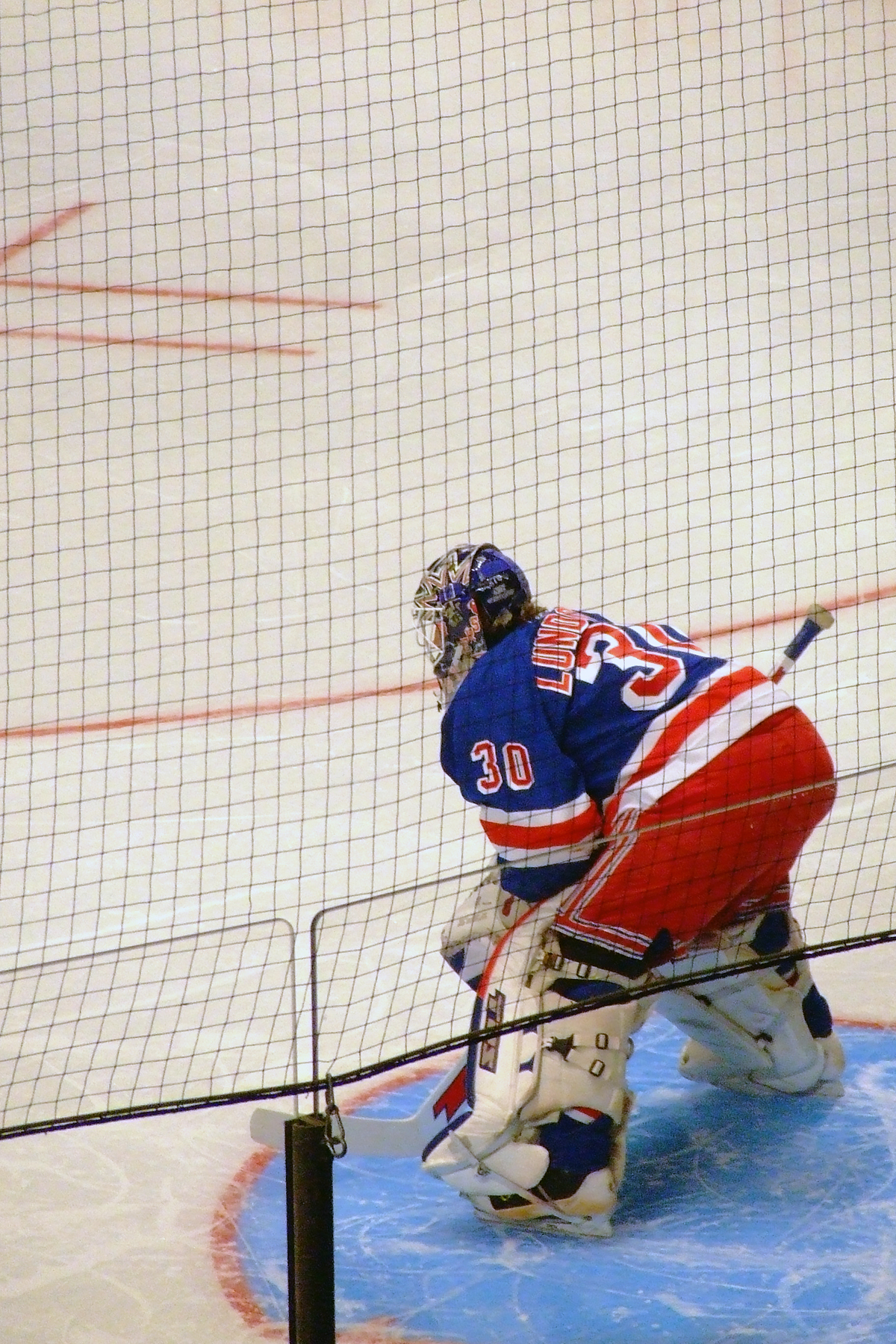 Henrik Lundqvist, goal tender of the N.Y. Rangers, game vs. Detroit Red Wings, Madison Square Garden, February 5, 2007